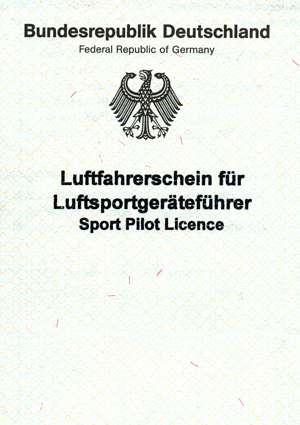 Luftfahrerschein für Luftsportgeräteführer